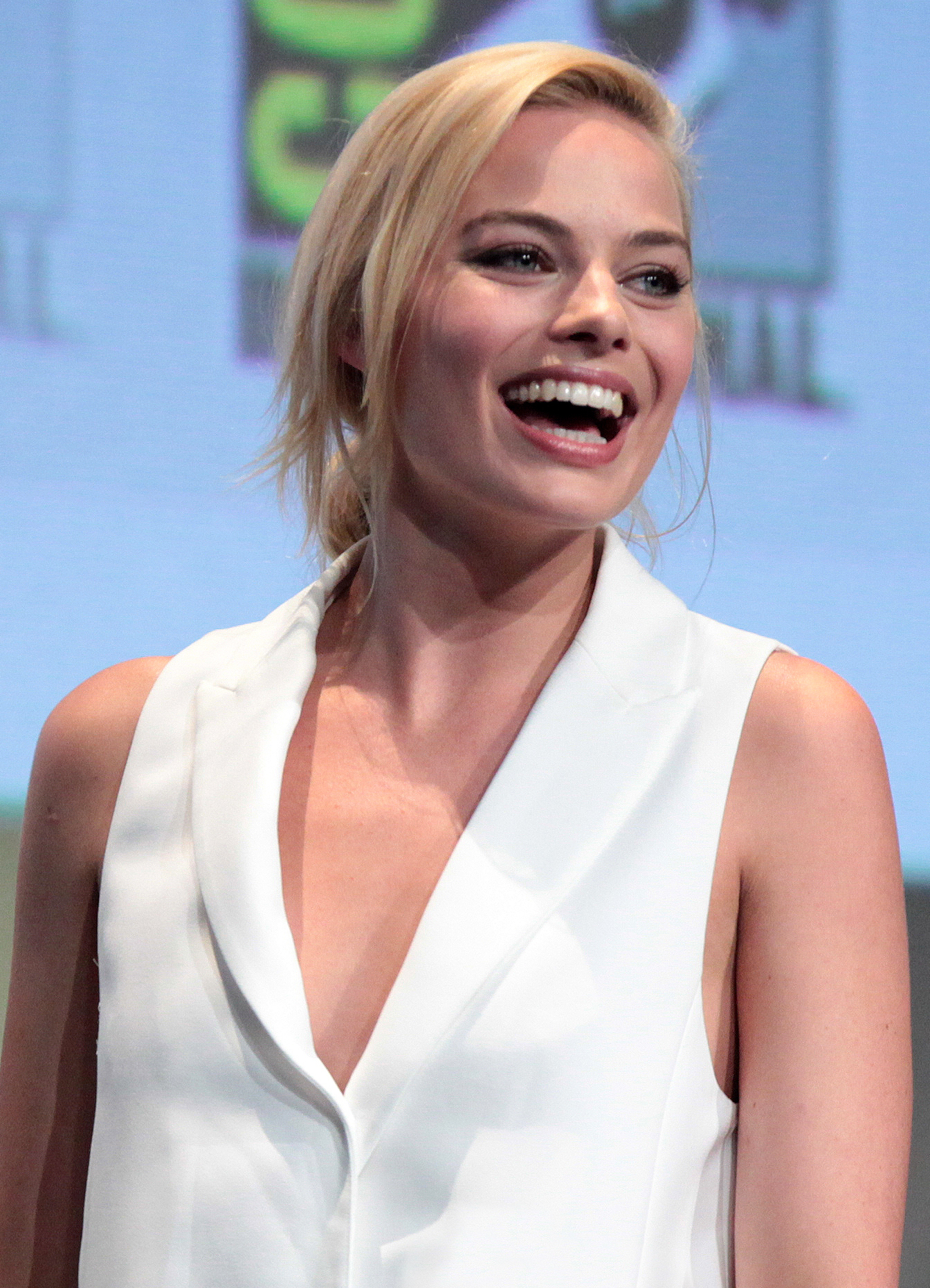 Margot Robbie at the 2015 San Diego Comic Con International in San Diego, California.